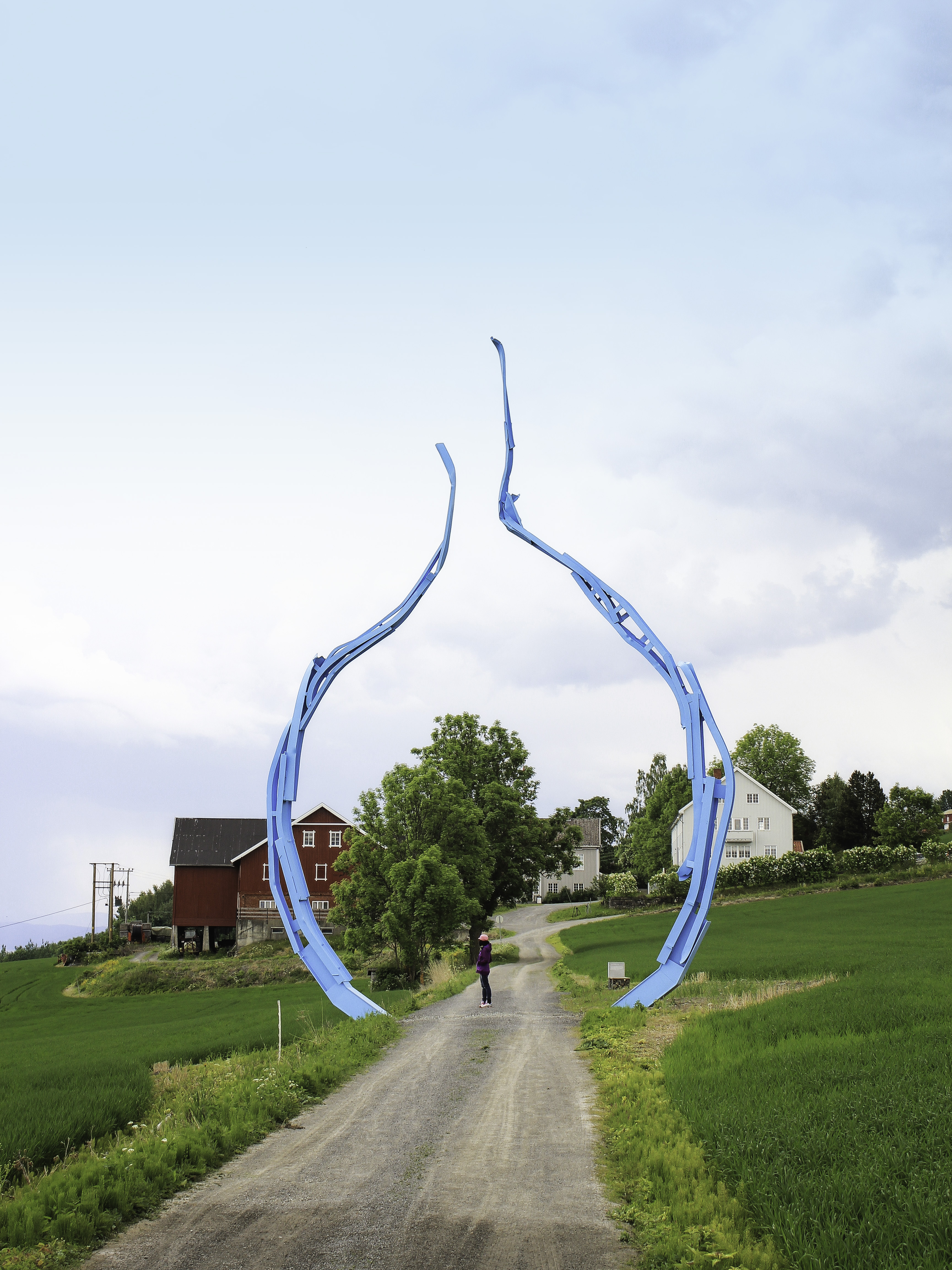 The onion to Billerud farm.